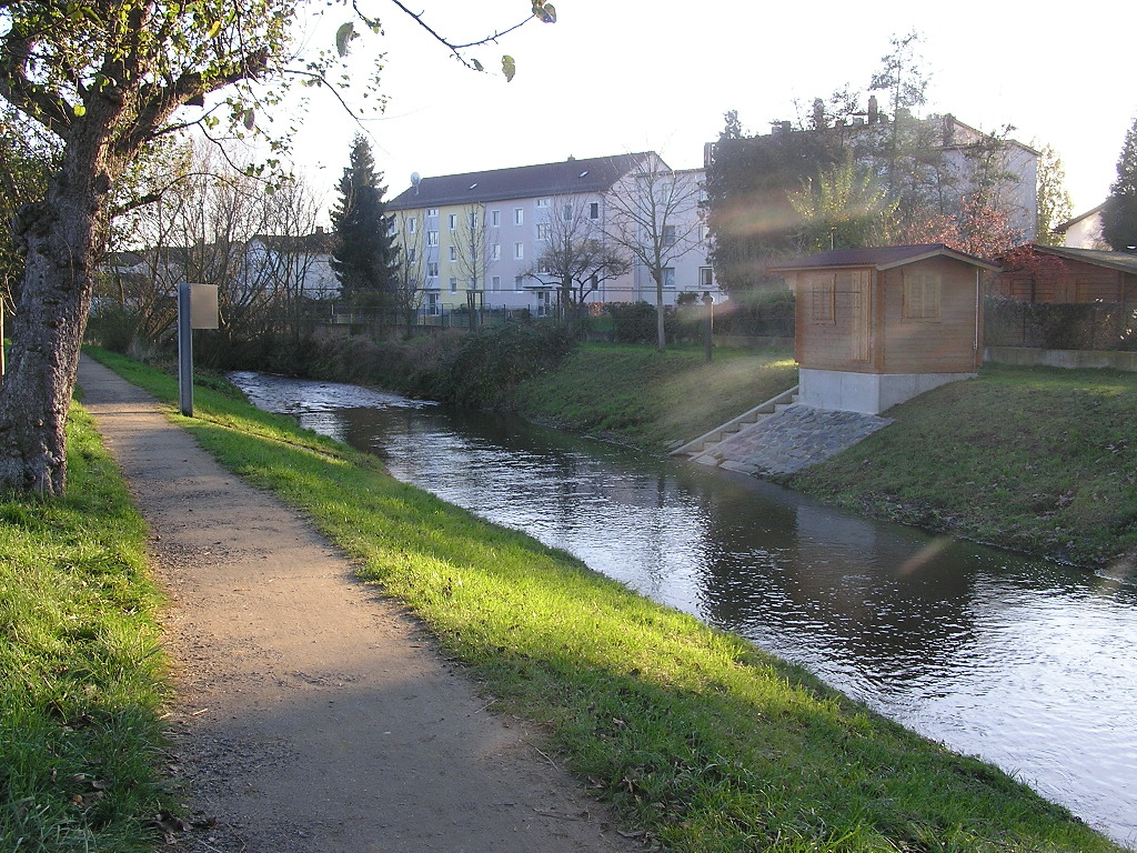 A stream gauge at the Usa at Friedberg